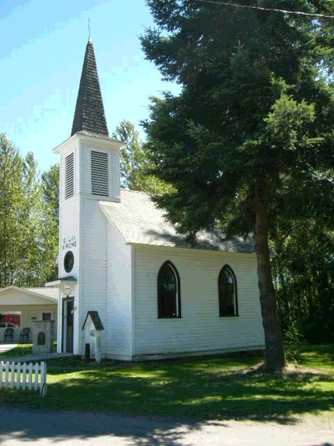 Elbe Lutheran Church